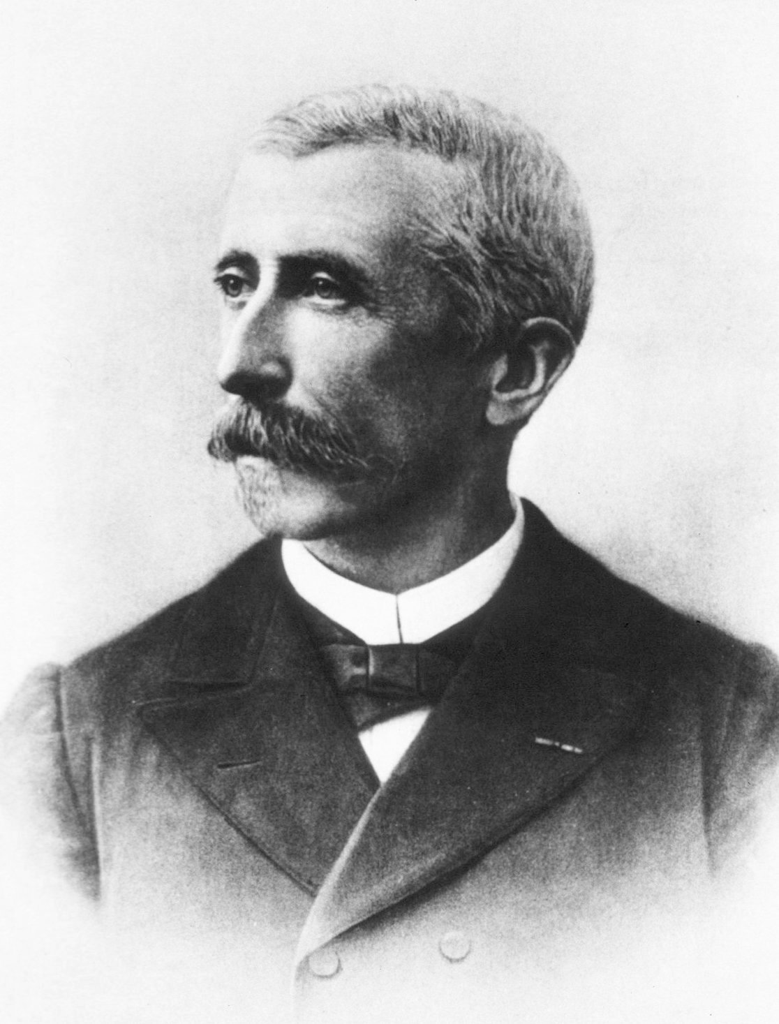 Photograph of Theodule-Armand Ribot, French psychologist